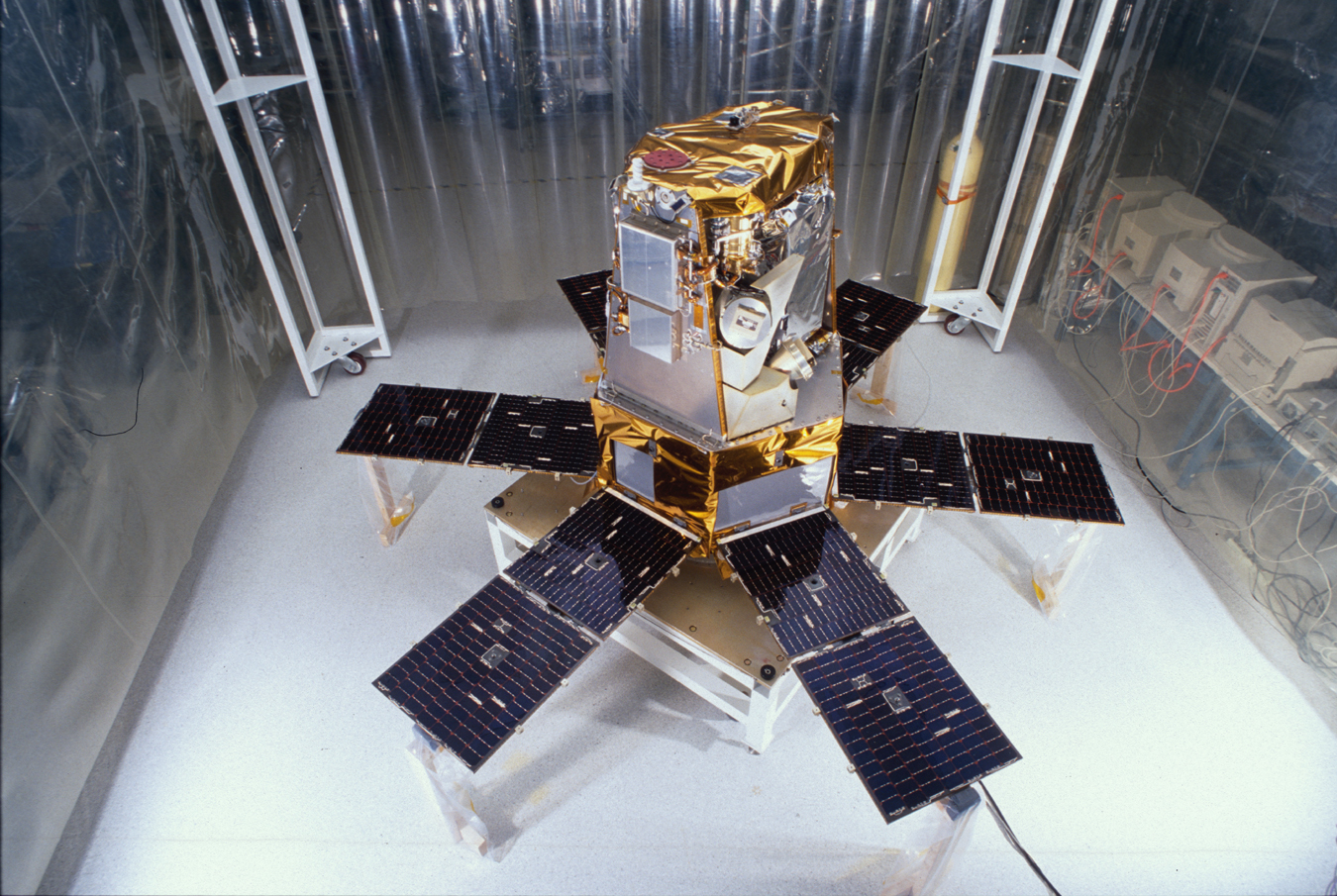 SORCE prelaunch image